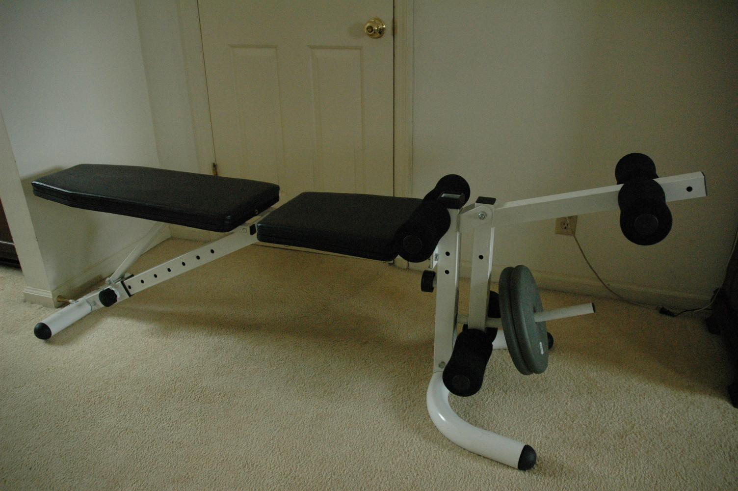 My photo, weight bench from the side